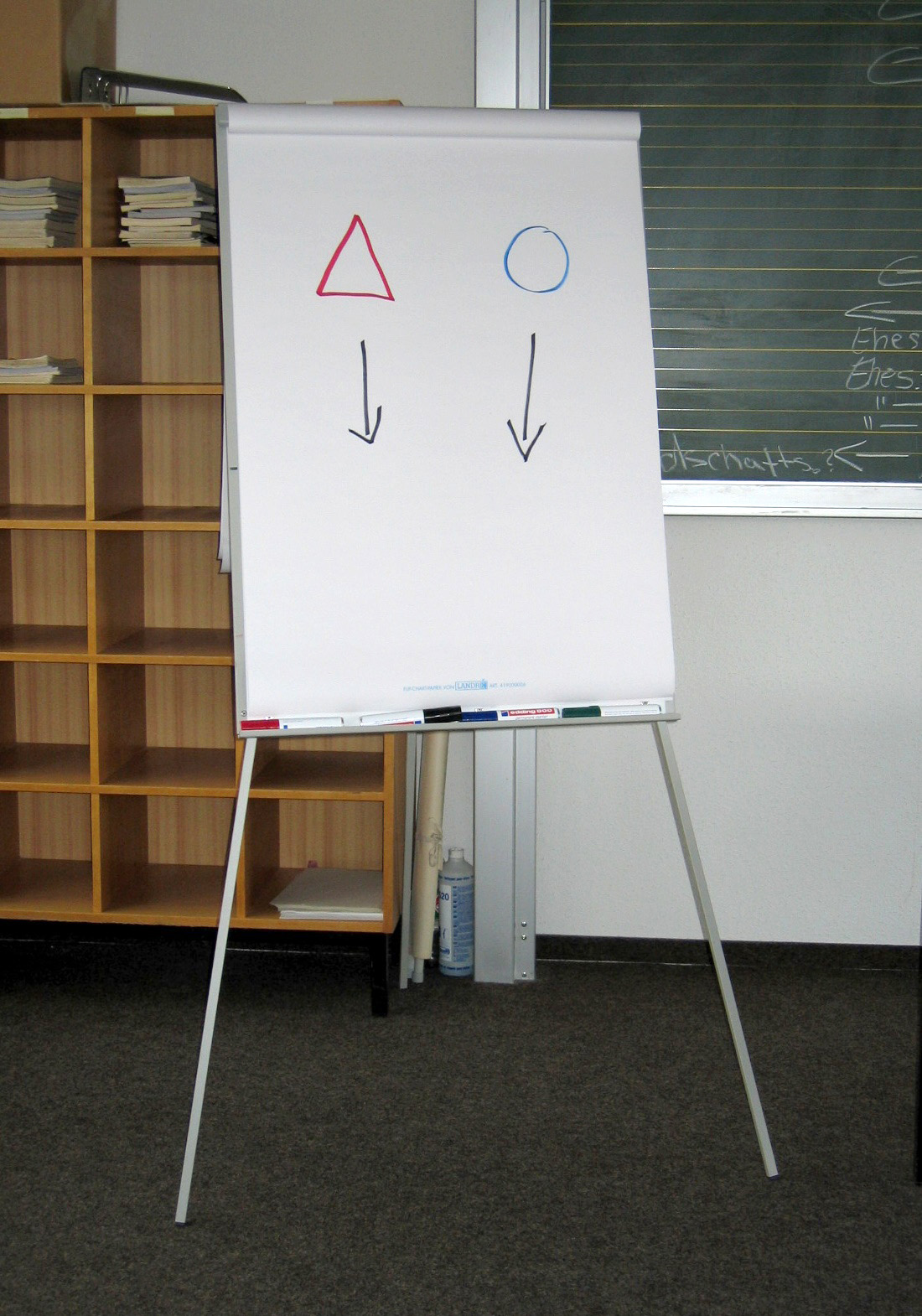 Description: Flipchart Source: selbst fotografiert Date: 12. Apr. 2006 Author: Asio otus